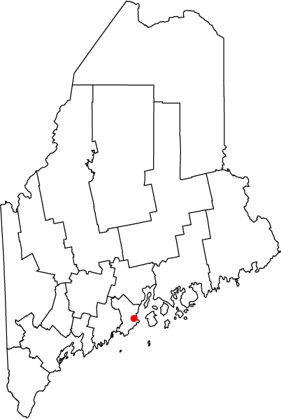 Map of the state of Maine with County Outlines, highlighting Rockland.